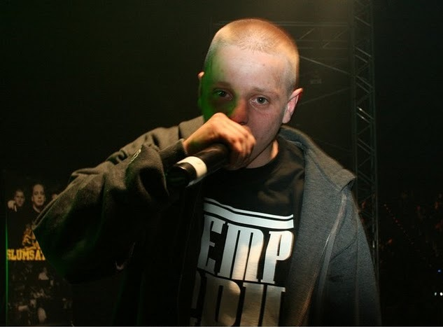 Polish rapper Żary